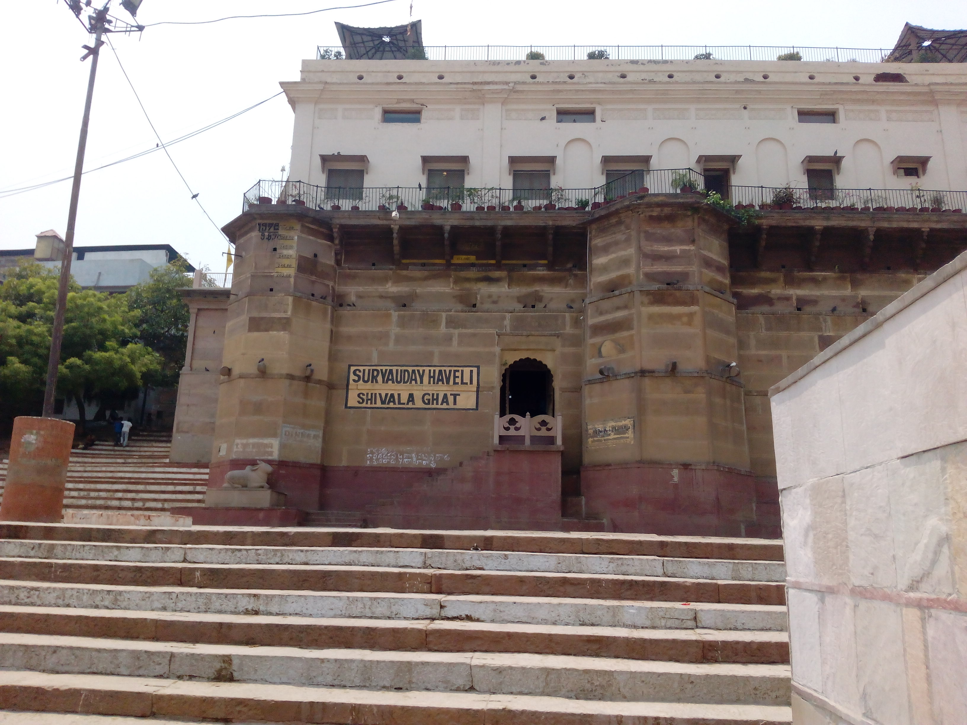 Shivala Ghat (शिवाला घाट) - Built by Kashiraj Balvant Singh. The ghat provides lodging facility.